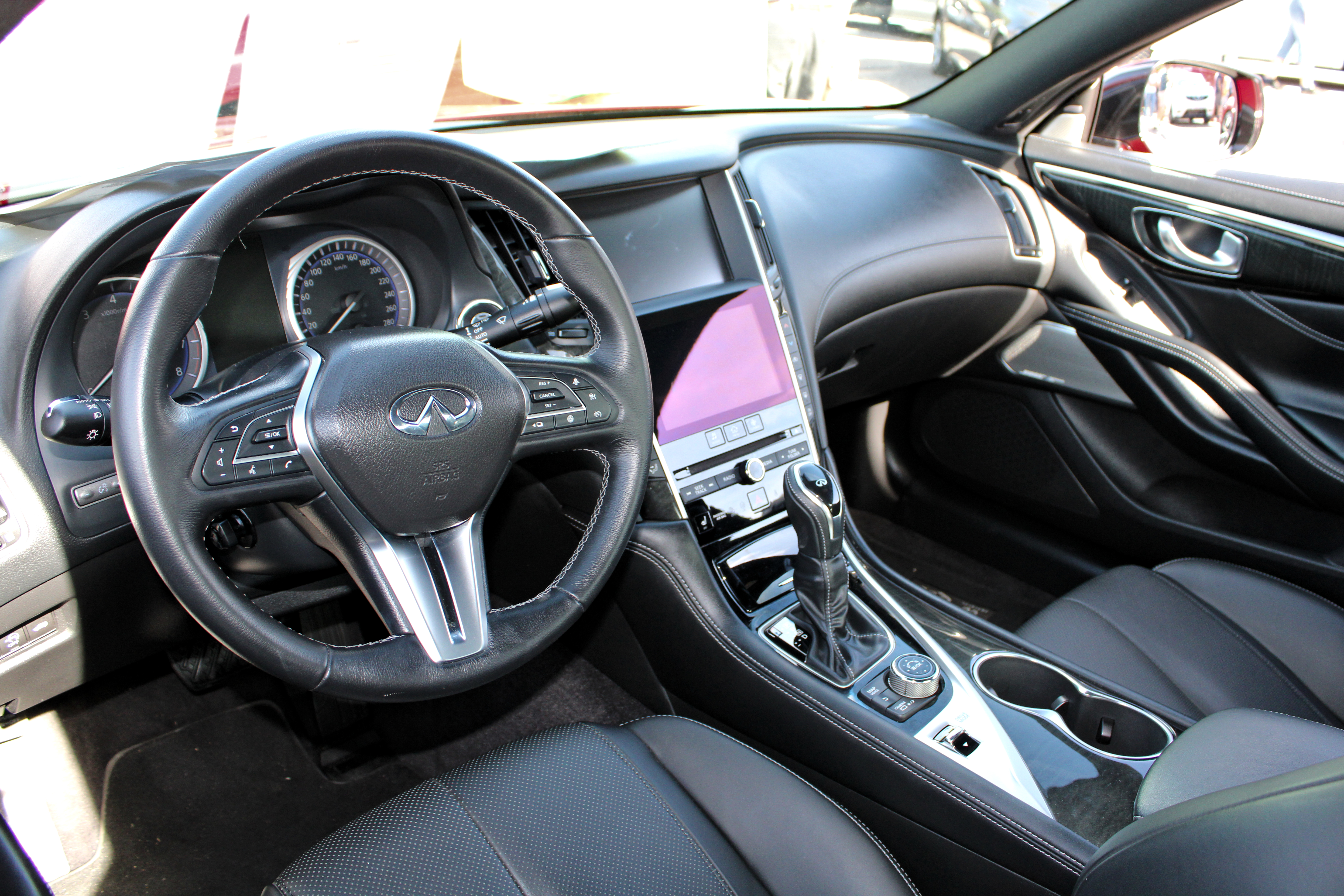 Infiniti Q60 (V37)